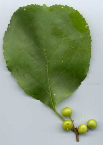 Celastrus orbiculatus (Oriental Bittersweet)